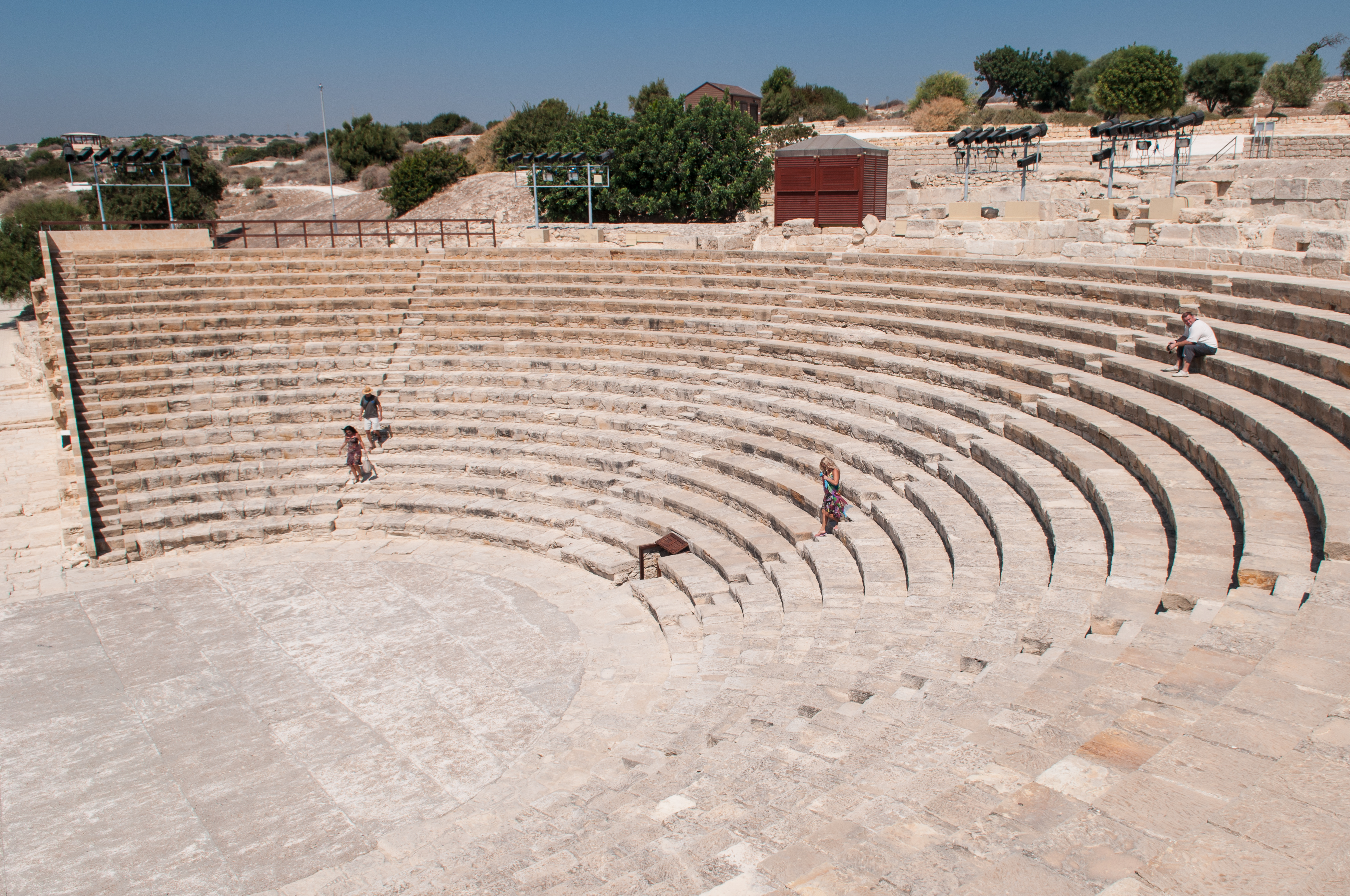 Kourion Archeological Museum, Cyprus